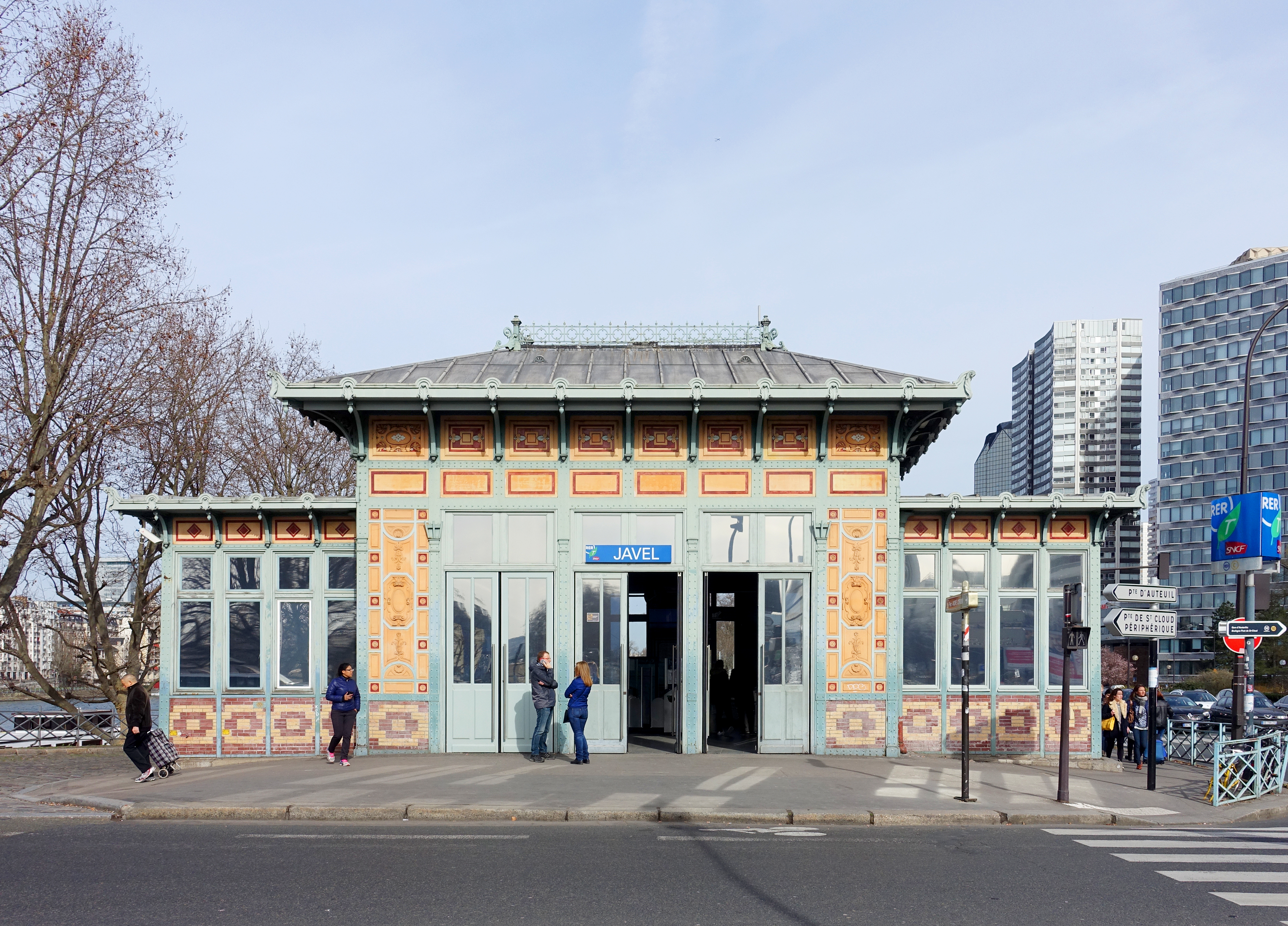 Javel Metro station @ Javel @ Paris 15